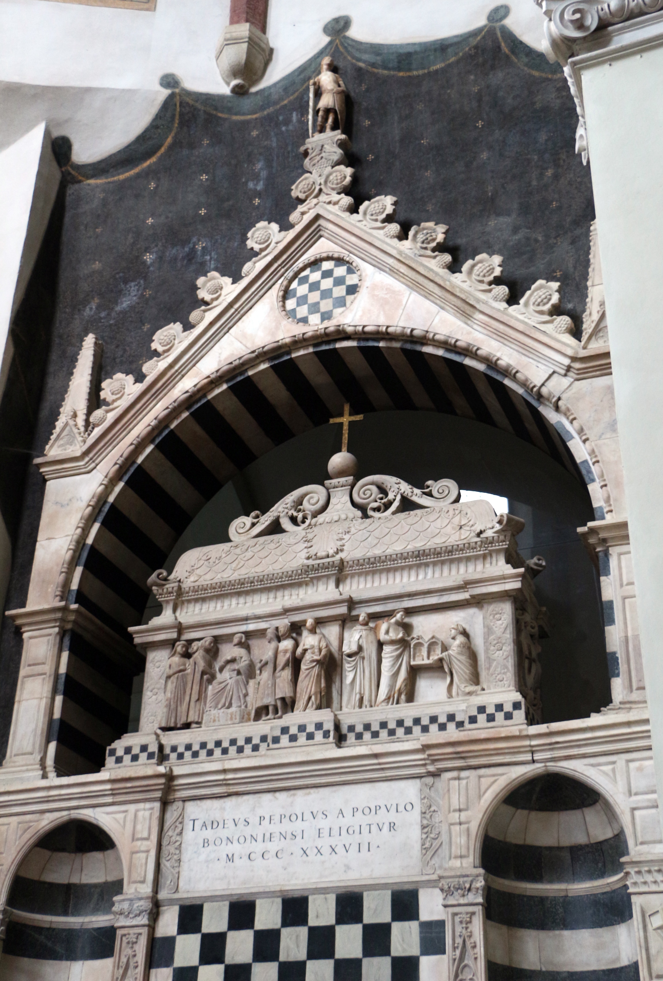 San Domenico (Bologna)